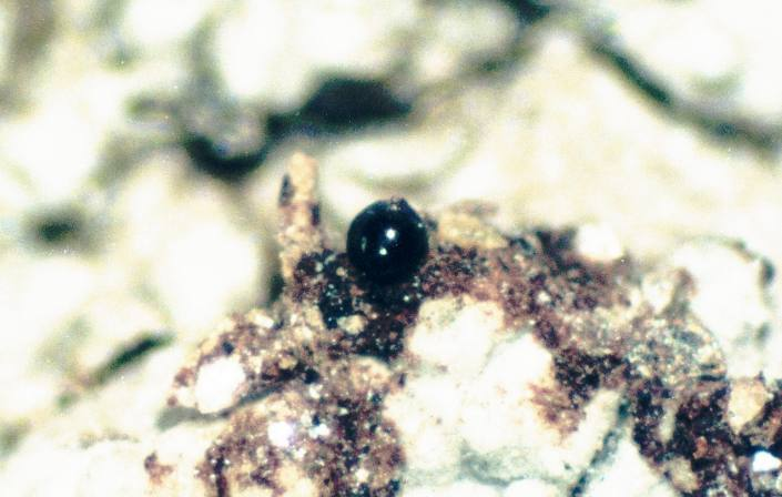 Sphinctrina turbinata (Pers.) De Not., 1846 (photograph of a herbarium specimen taken through a dissecting microscope (x10) showing a black spherical apothecium) Sphinctrina turbinata is a lichenicolous fungus usually found growing on Pertusaria, but this specimen was growing on Aspicilia caesiocinerea (Nyl. ex Malbr.) Arnold on a rock near the water on the E side of Liberty Lake, Carroll County, Maryland, USA; collected by E.C. Uebel, identified by Dr. Steven Selva at the University of Maine at Fort Kent.